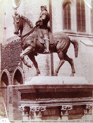 Carlo Naya (1816-1882) - "Venice, Moument to Bartolomeo Colleoni". Catalogue # 34 B. 1870s. Today.